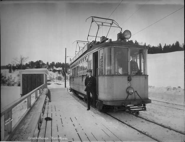 Tram on the Gråkall Line in Trondheim, Norway